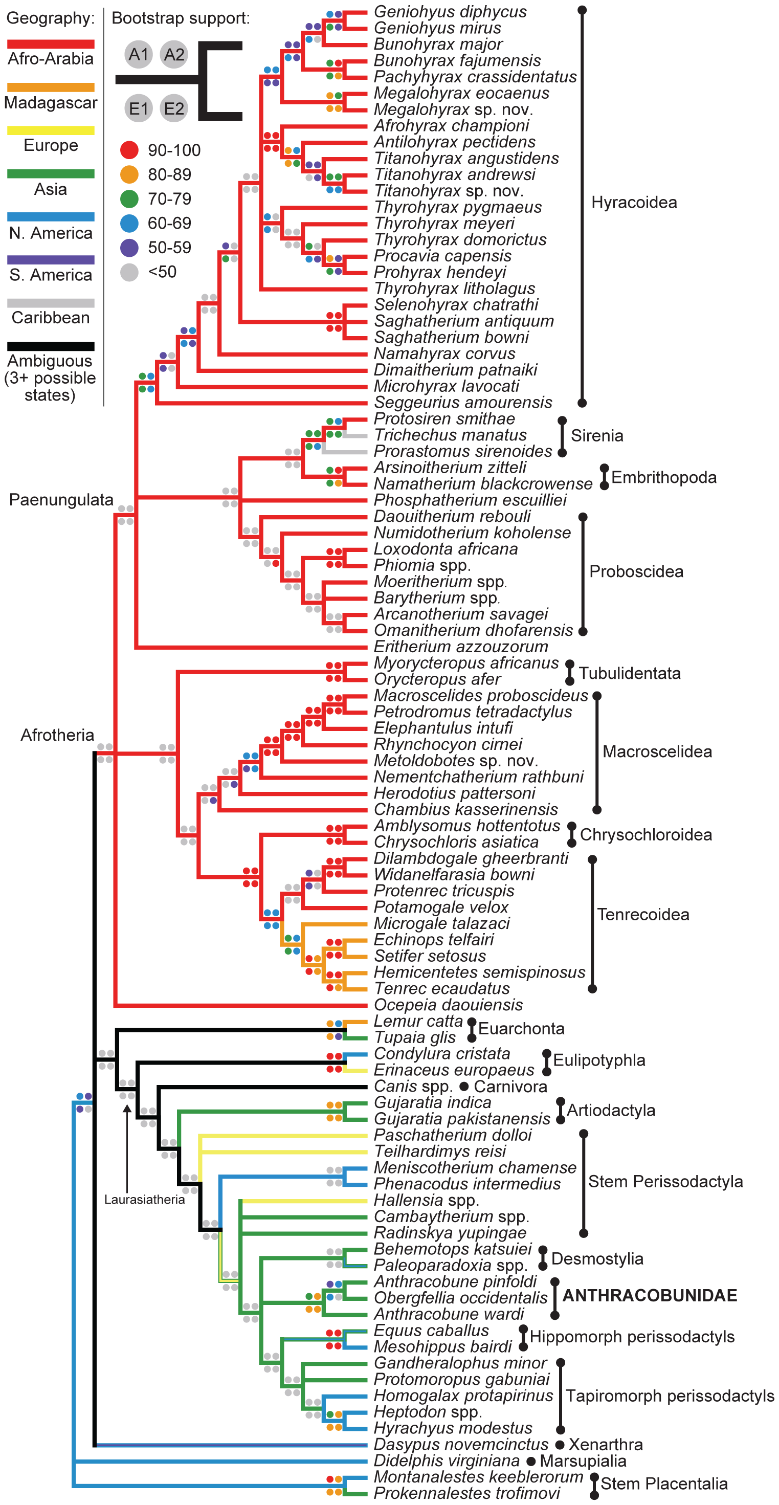 Adams consensus of all trees recovered from parsimony analyses that included some ordered multistate characters, with continental geography (see states in upper left-hand corner) optimized onto the tree using parsimony (relationships among extant taxa were constrained by a “molecular scaffold”). Bootstrap support for clades derived from each analysis contributing to the consensus is depicted by colored circles. A1 = Atlantogenata constraint, transitions between polymorphic and “fixed” states in ordered morphoclines weighted as 0.5 steps; A2 = Atlantogenata constraint, transitions between polymorphic and “fixed” states in ordered morphoclines weighted as one step; E1 = Exafroplacentalia constraint, transitions between polymorphic and “fixed” states in ordered morphoclines weighted as 0.5 steps; E2 = Exafroplacentalia constraint, transitions between polymorphic and “fixed” states in ordered morphoclines weighted as one step. Across all trees, anthracobunids and desmostylians were placed as perissodactyls, along with two enigmatic Asian taxa, the late Paleocene “condylarth” Radinskya and early Eocene Cambaytherium.